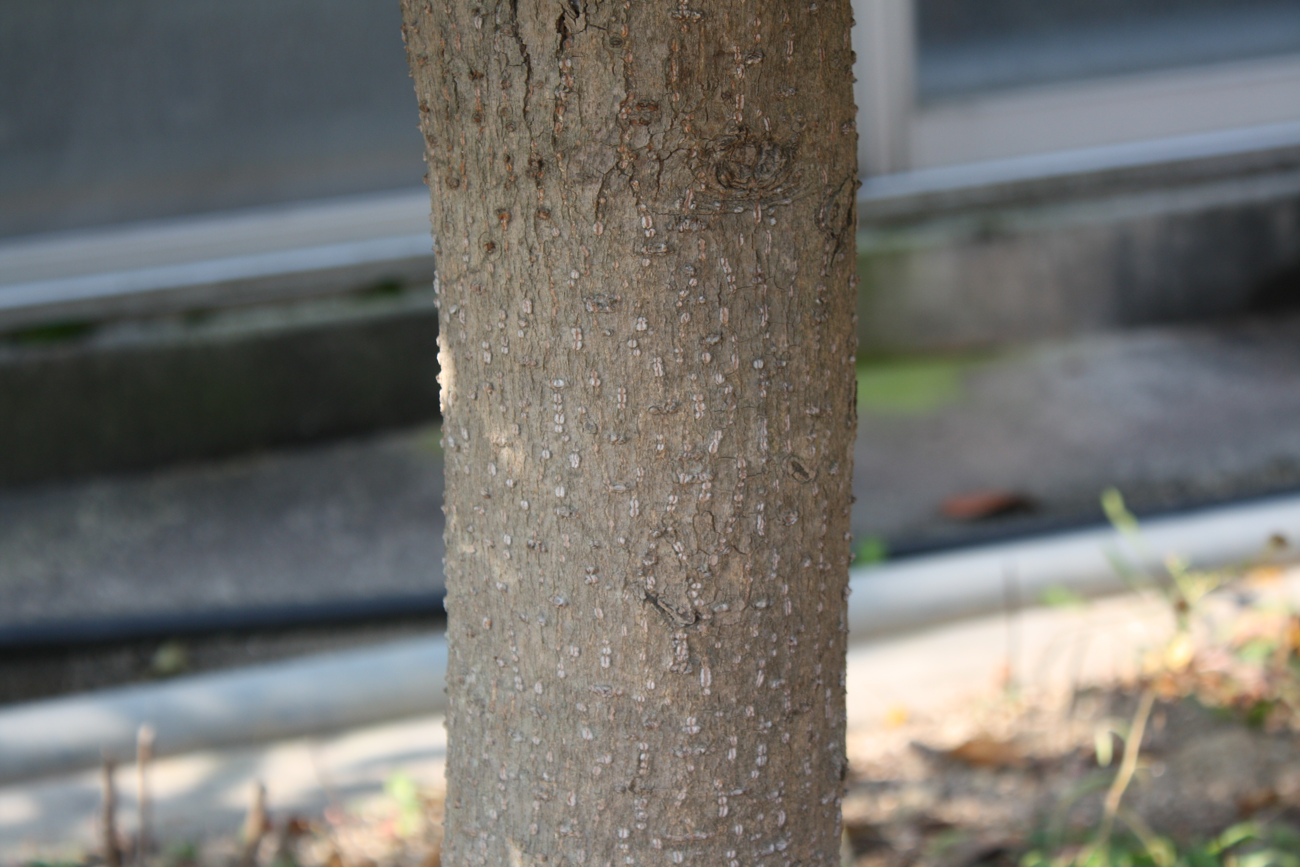 Persea thunbergii (syn. Machilus thunbergii) in Hampyung, Korea